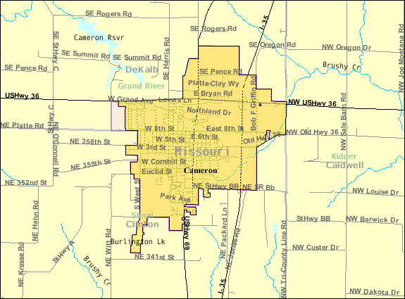 U.S. Census 2000 reference map for Cameron